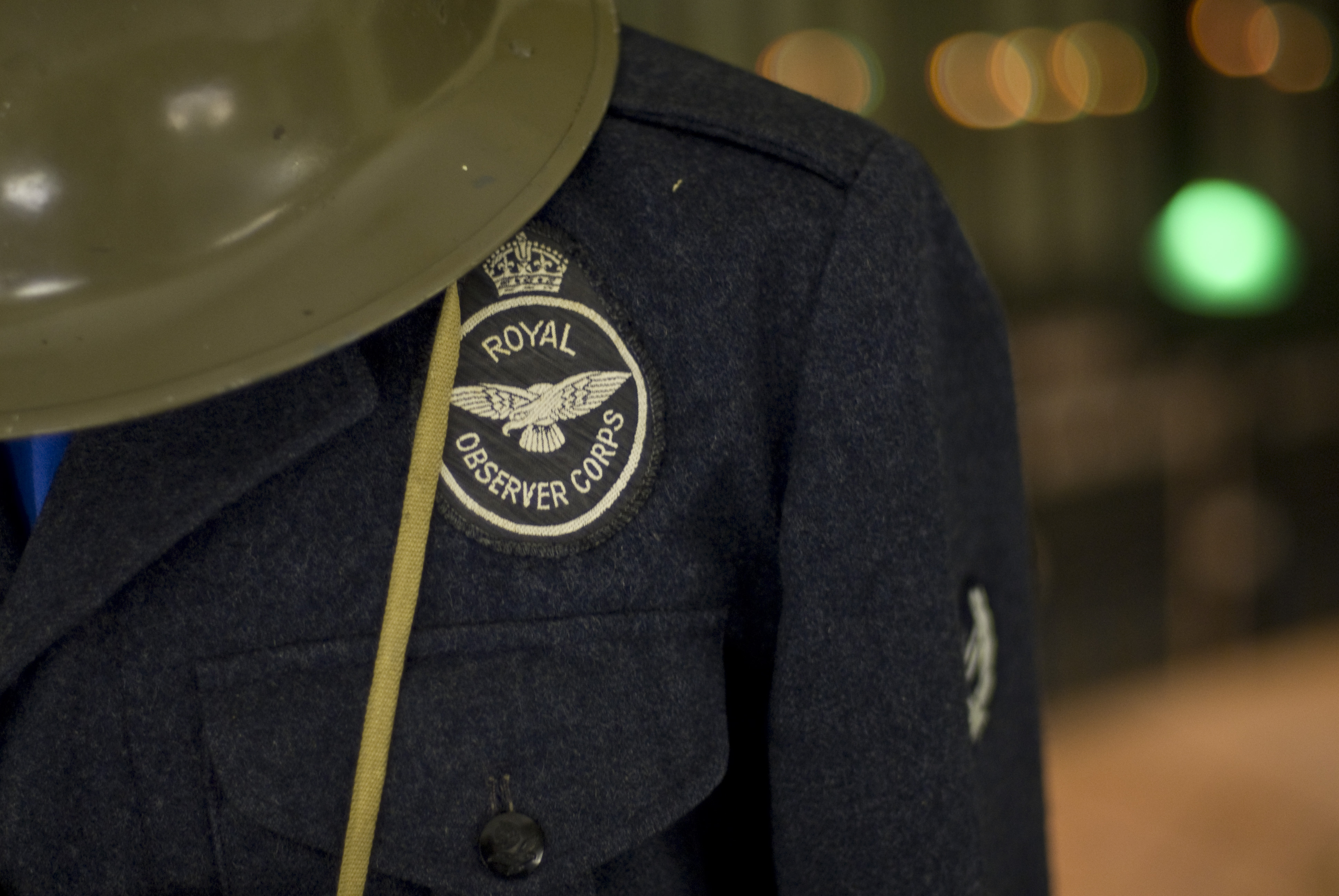 ROC Uniform